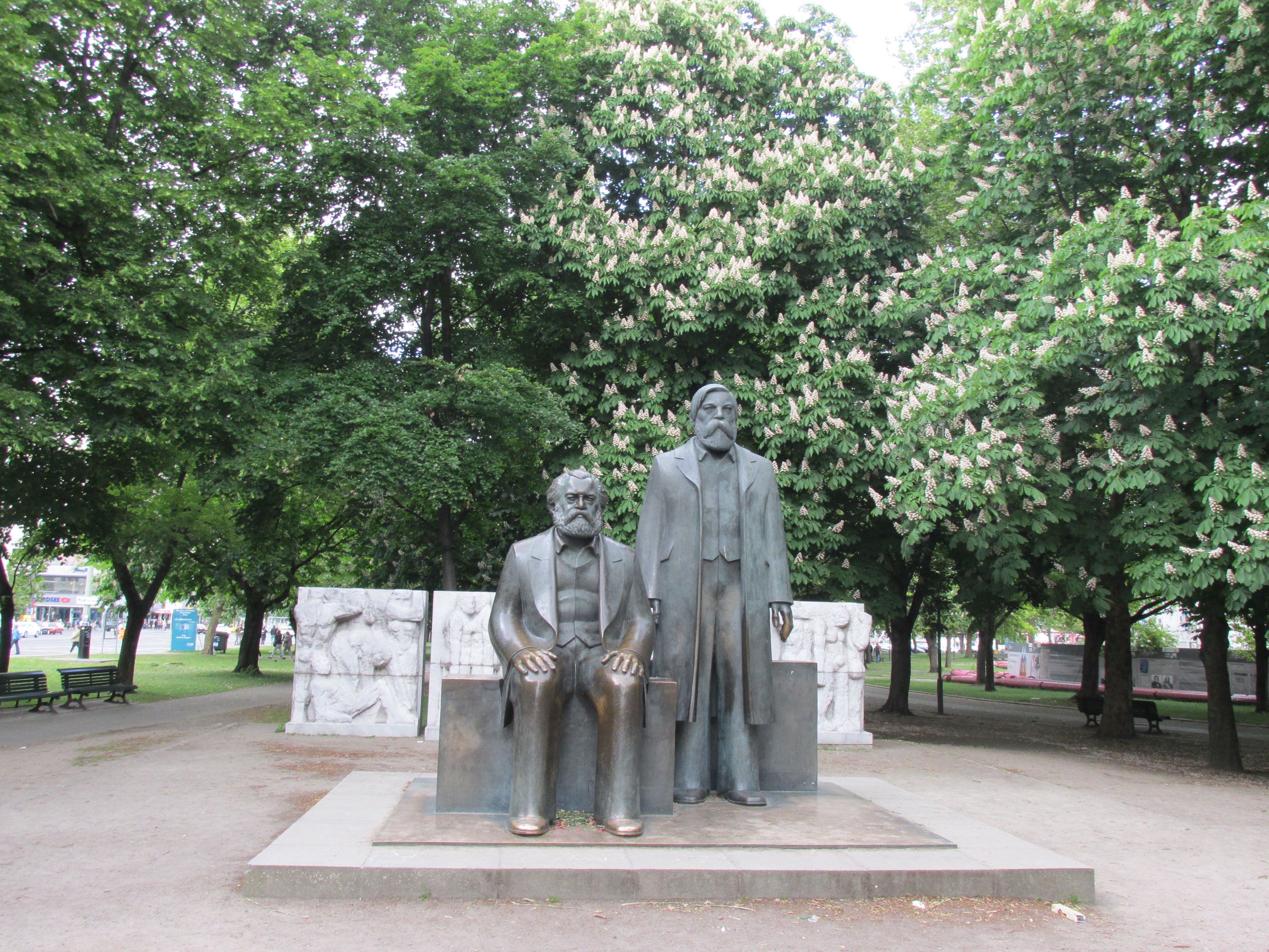 Statue of Marx and Engels in the Marx-Engels-Forum near Alexanderplatz, Berlin-Mitte